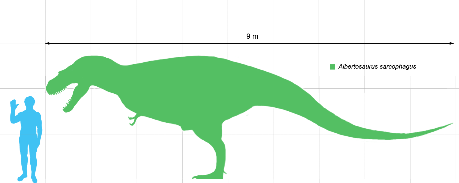 Scale chart for Albertosaurus sarcophagus